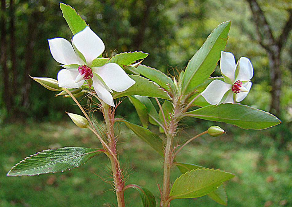 A Neotropical native, also known as Yerba de San Martin. Photo from Kuna Yali border area, northeastern Panama. In context at